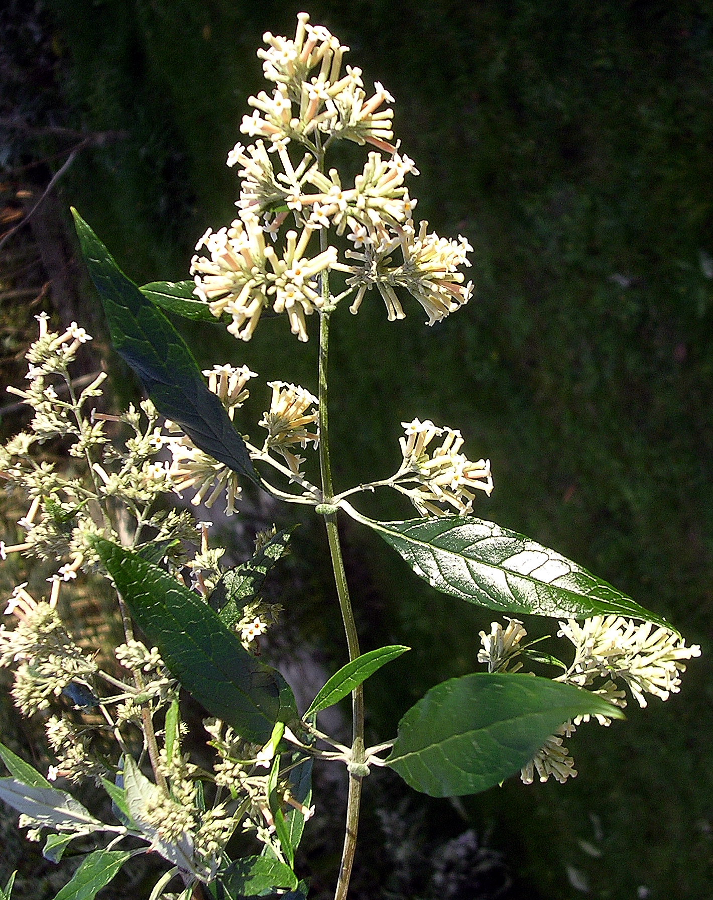 Photo of the flower panicle of the South Sfrican buddleja, B. auriculata.